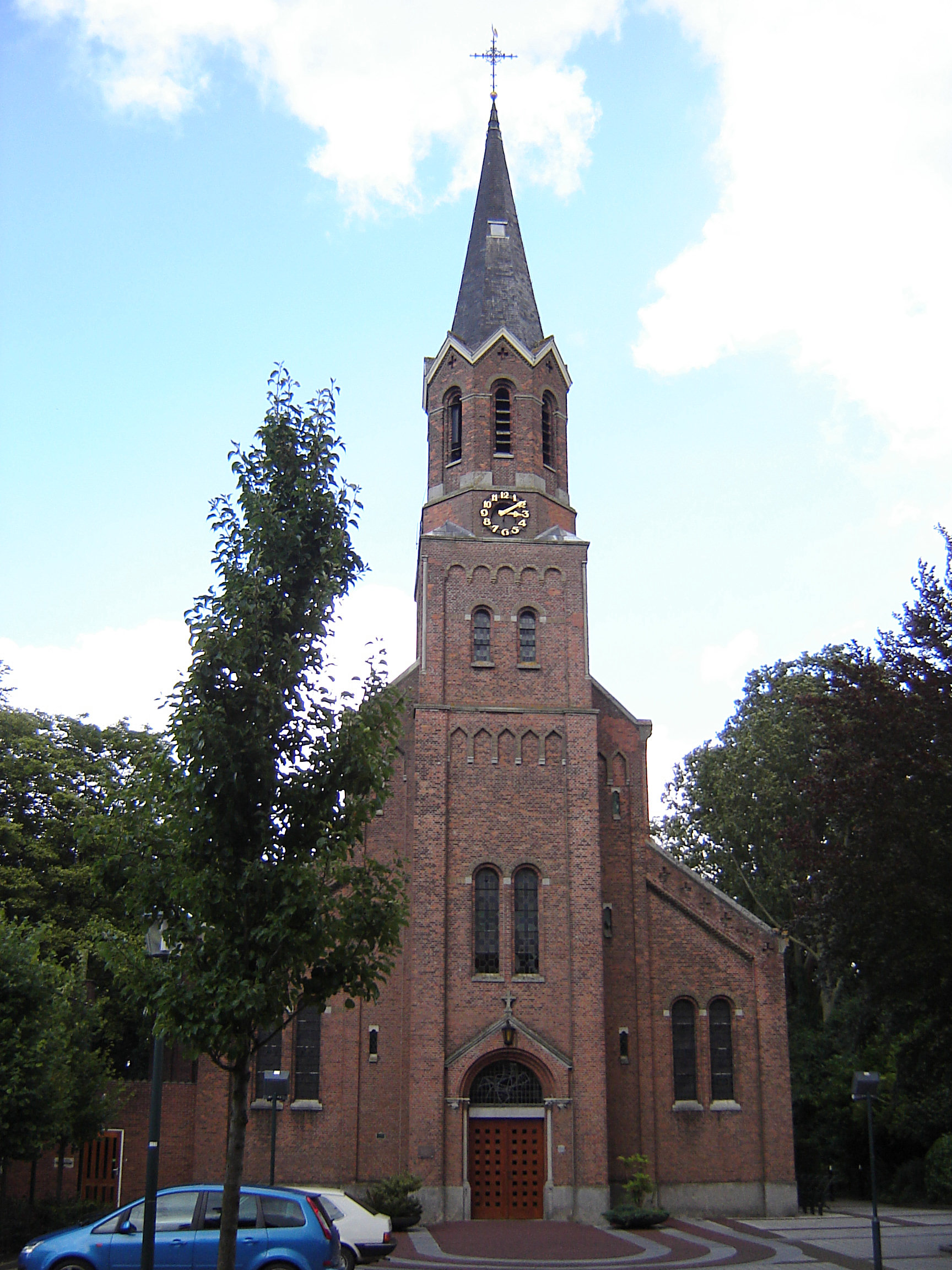 Church of Saint Henry in Clinge. Clinge, Hulst, Zeeland, the Netherlands